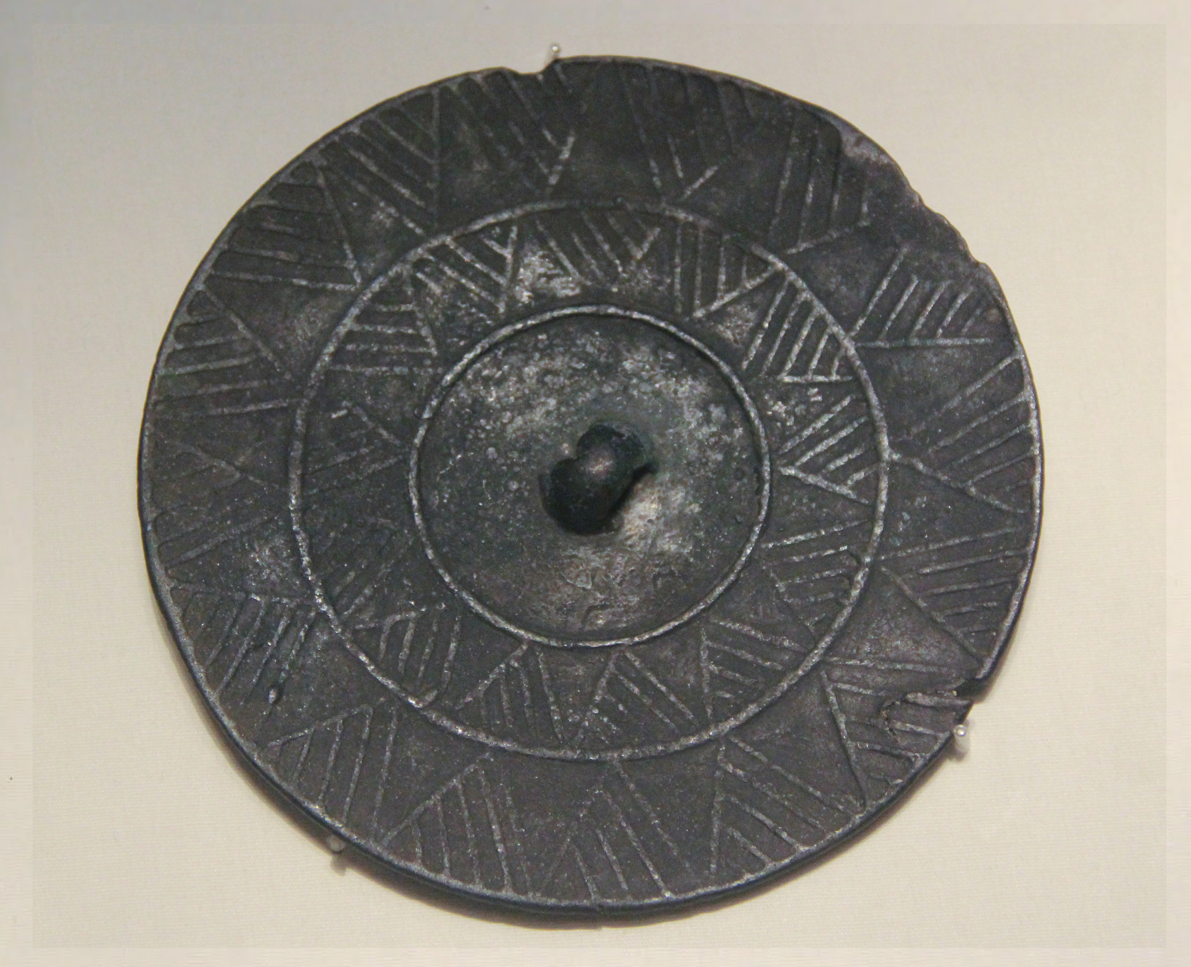 Bronze mirror, steppic style. Photography taken in the National Museum, Beijing.